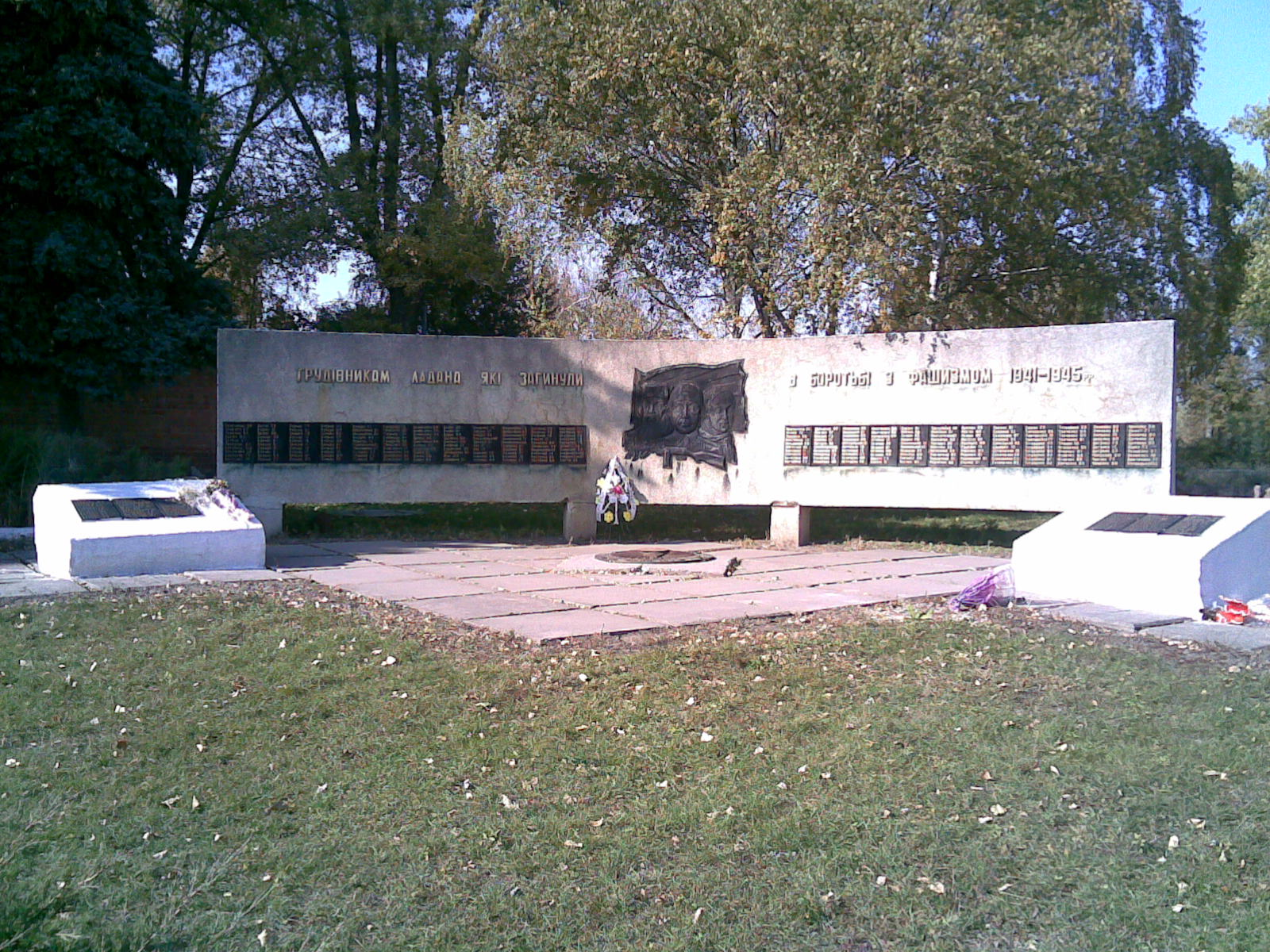 World War II monument situated in the center of Ladan village, Ukraine. Names of soldiers from Ladan, killed in WWII, can be seen on plates. Eternal flame isn't burn for several last years, as local people say, due to economical problems; but they still take care of the monument, and it is used as a place to take a photo during a marriage.